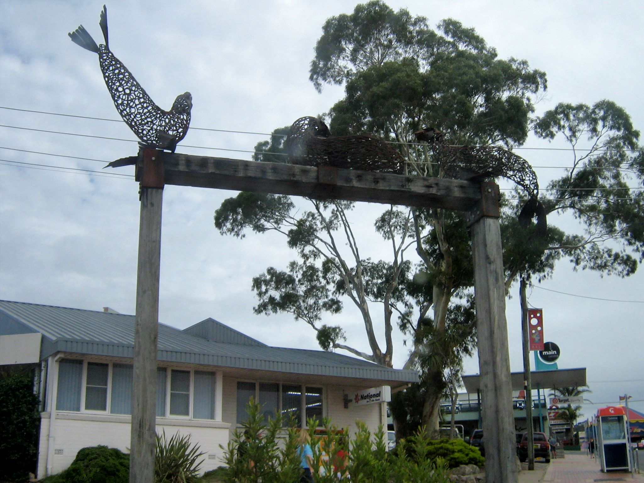 The metal seals on the corner of Market and Main streets Merimbula.